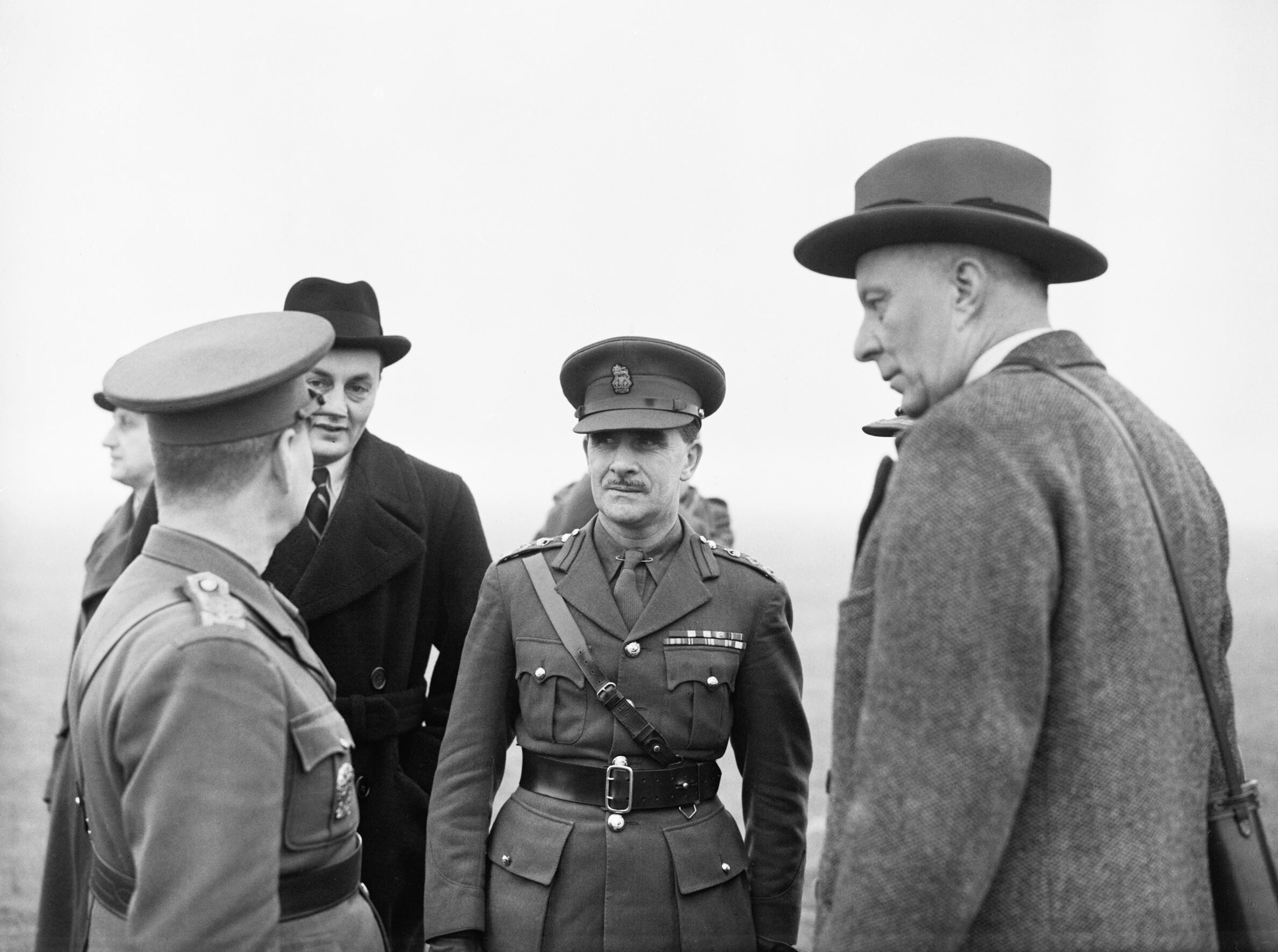 The British Army in the United Kingdom 1939-1945 Hugh Dalton, Minister of Economic Warfare, talking to Czech officers during a visit to Czech troops near Leamington Spa, Warwickshire.